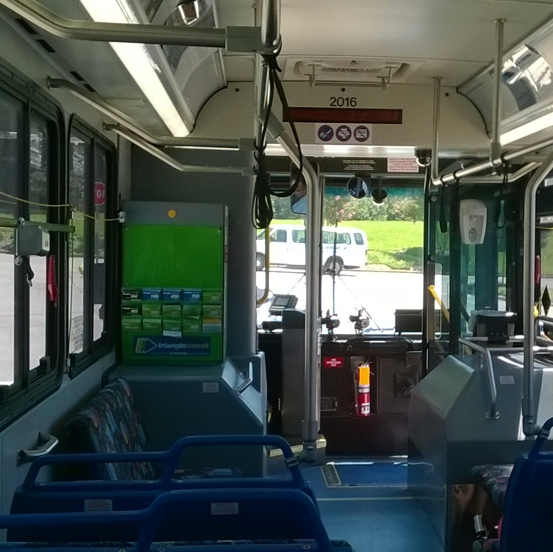 The interior of a Triangle Transit bus. The picture was taken in the Regional Transit Center.